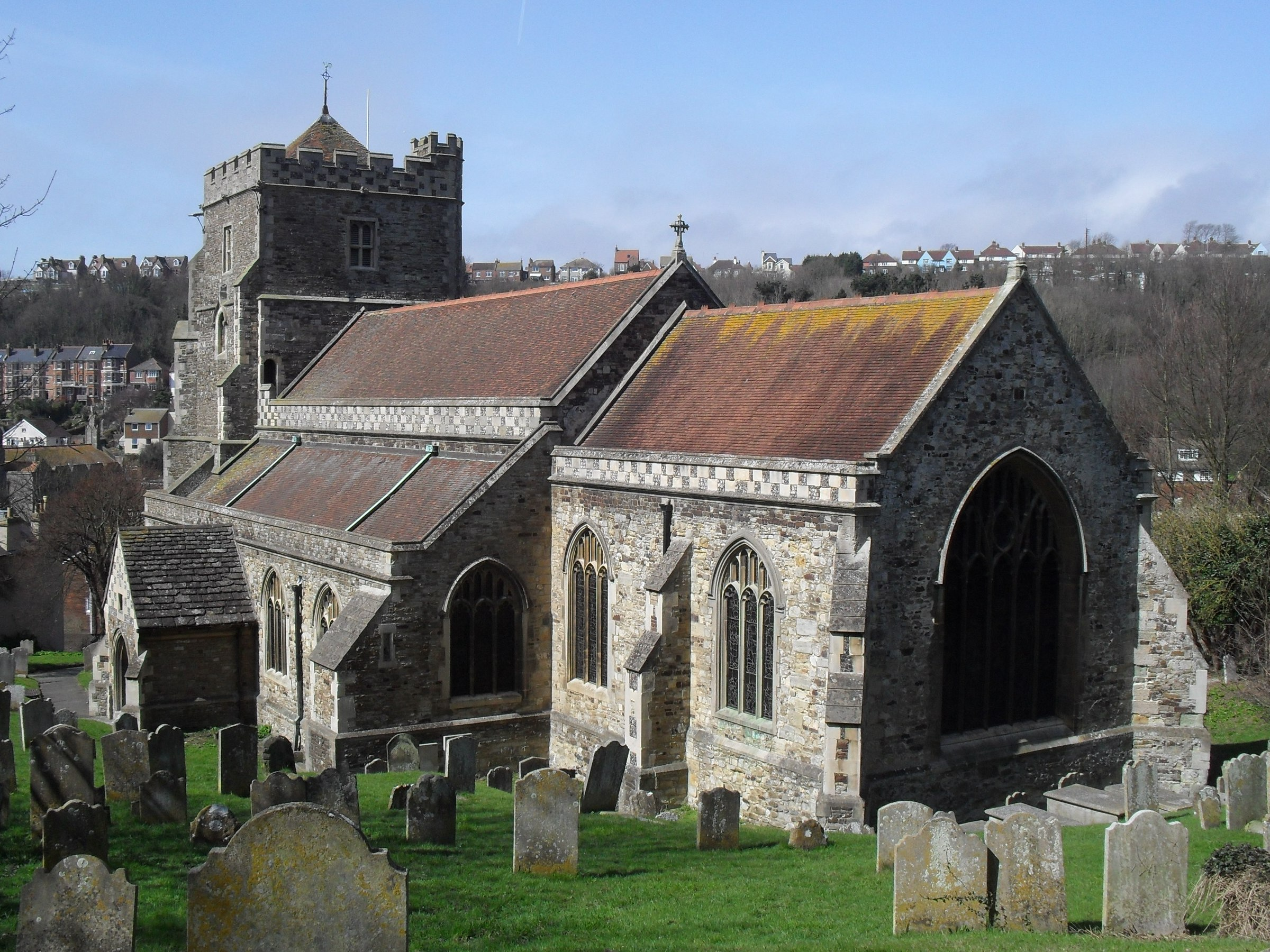 All Saints Church, All Saints Street, Old Town, Hastings, East Sussex, England. One of the two surviving medieval churches in the Old Town area of Hastings. Listed at Grade B by English Heritage (IoE Code 293639) (equivalent of Grade II*)